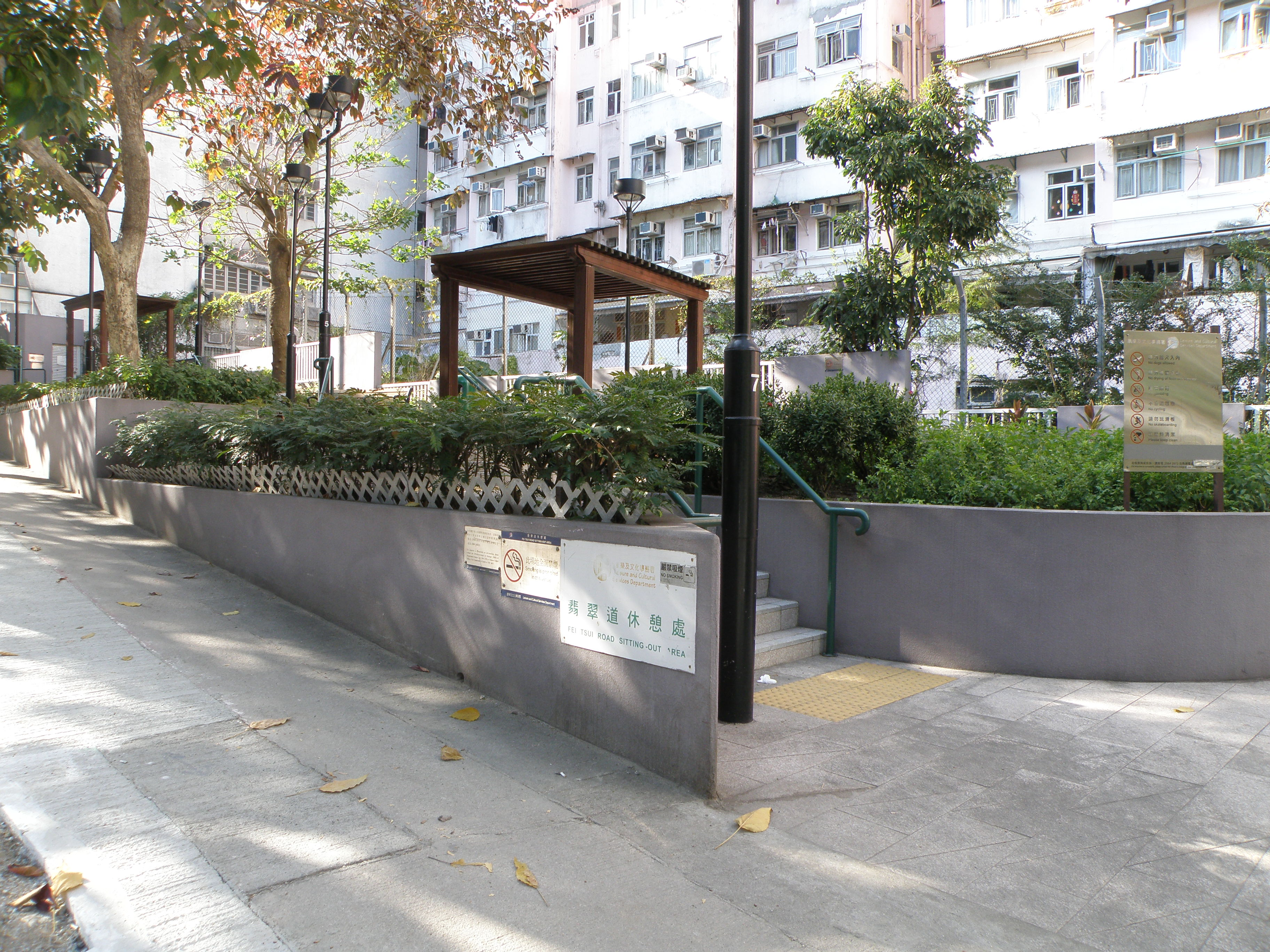 Fei Tsui Road Sitting-out Area in Chai Wan, Hong Kong.